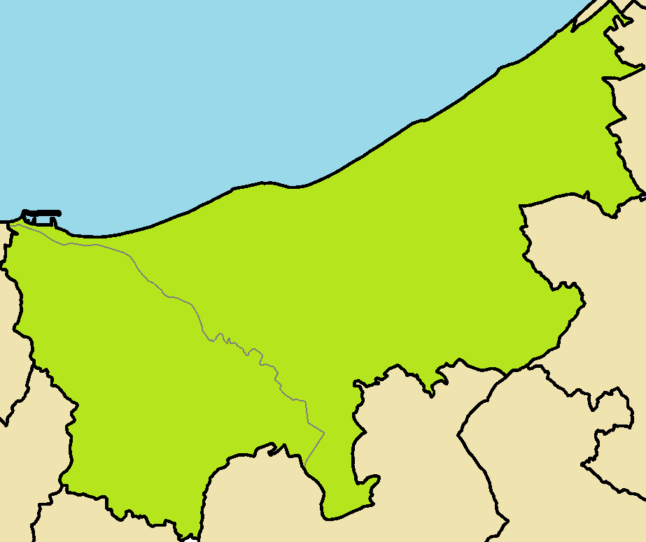 Polis (Cyprus) Municipality with quarters.